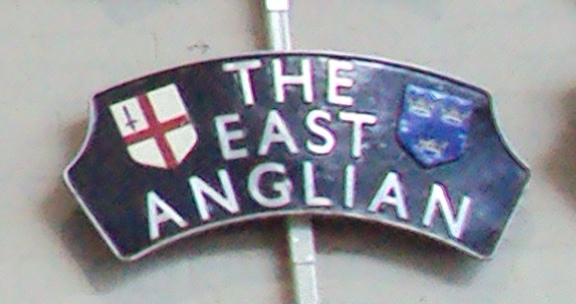 Train headboard for the East Anglian service of England. Photo taken at the National Railway Museum, York.